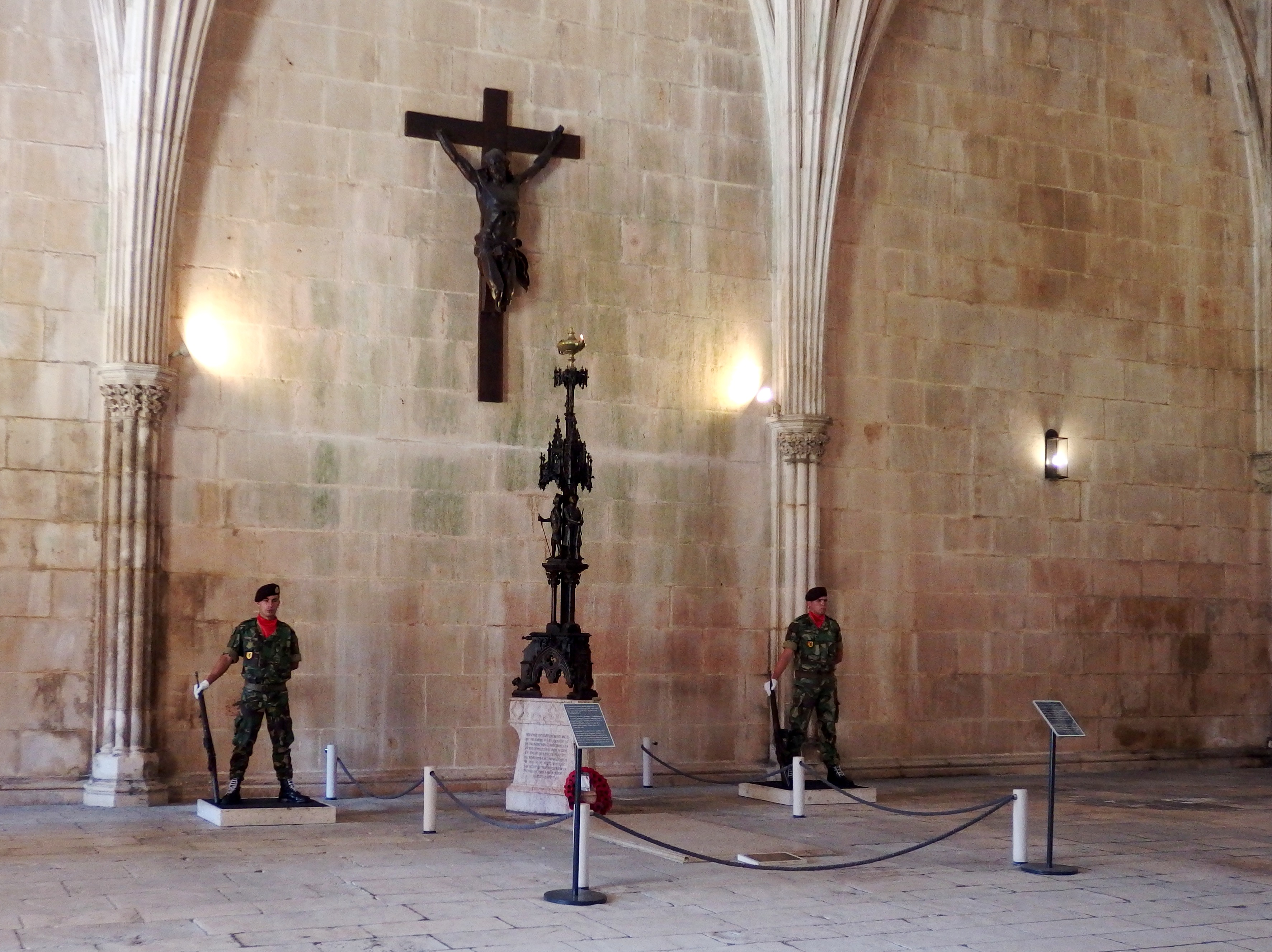 Batalha, Porugal.